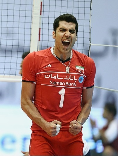 Shahram Mahmoudi in the match Vs. USA, 2015 World League, Tehran